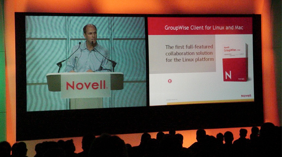 Novell presents a product developed by NovelliX